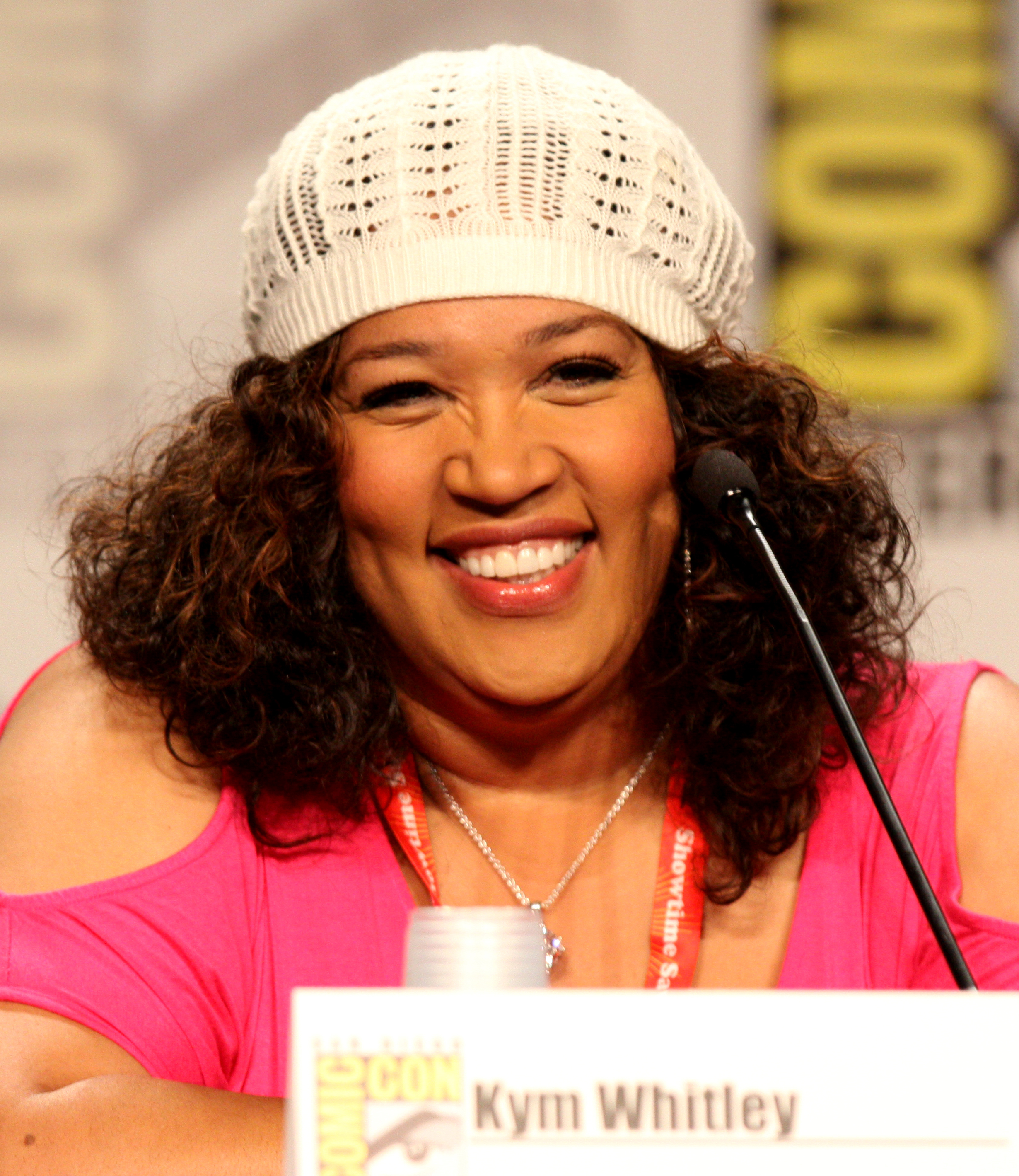 Kym Whitley at the 2011 Comic Con in San Diego